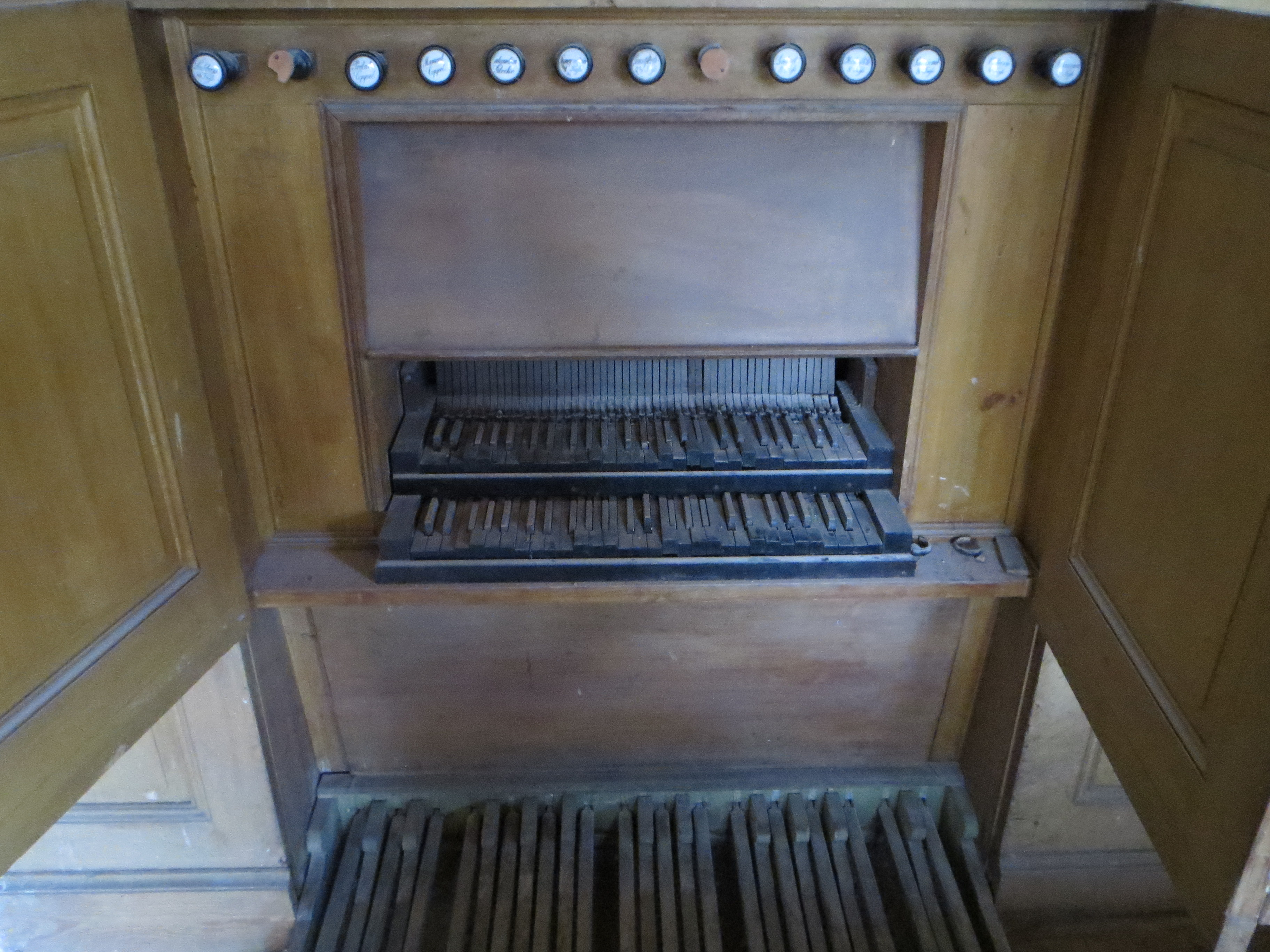 Church in Melkof: Organ keyboard